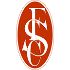 Logo SC Freiburg